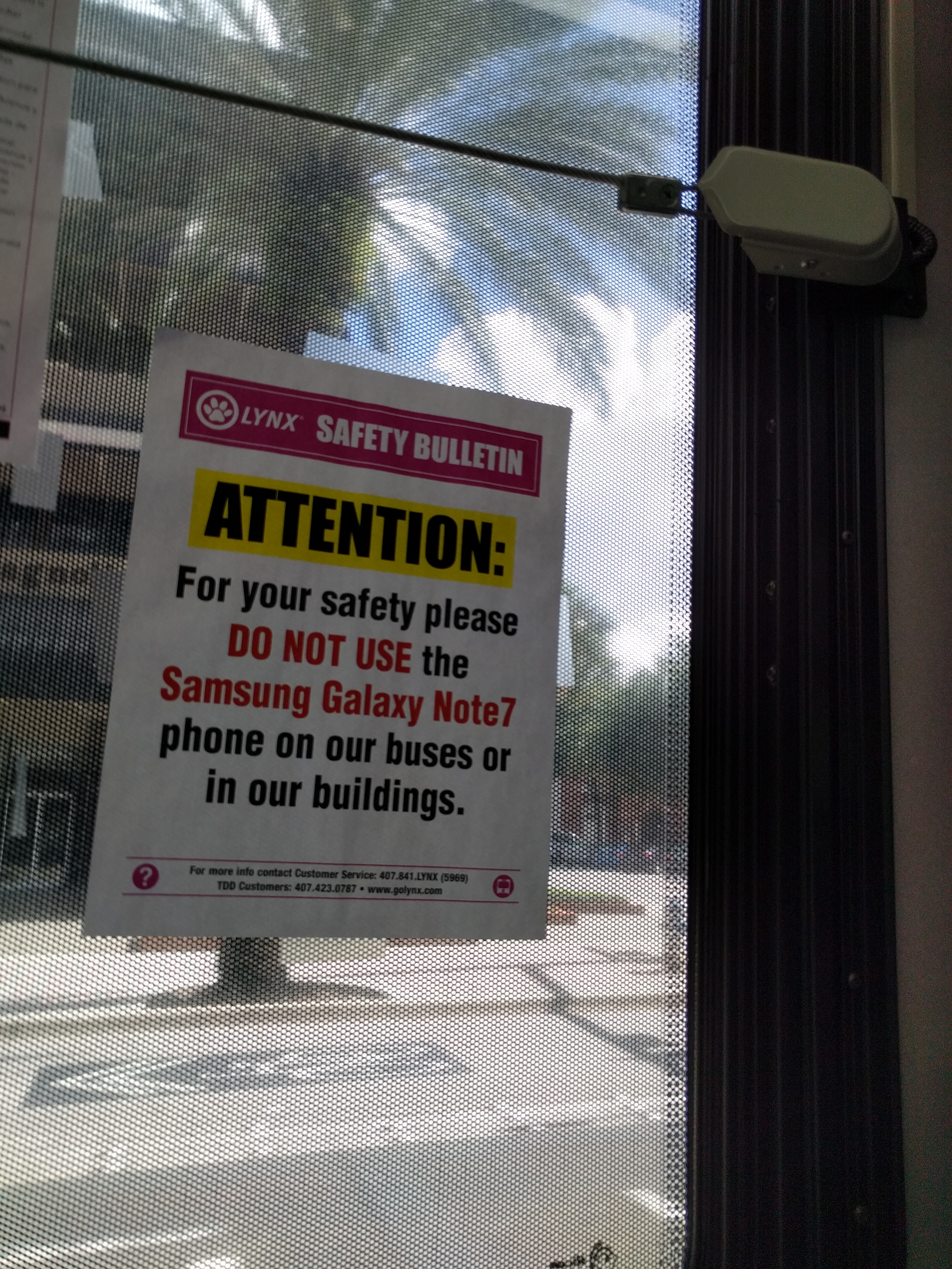 Ban on Samsung Galaxy Note 7 on Lynx buses